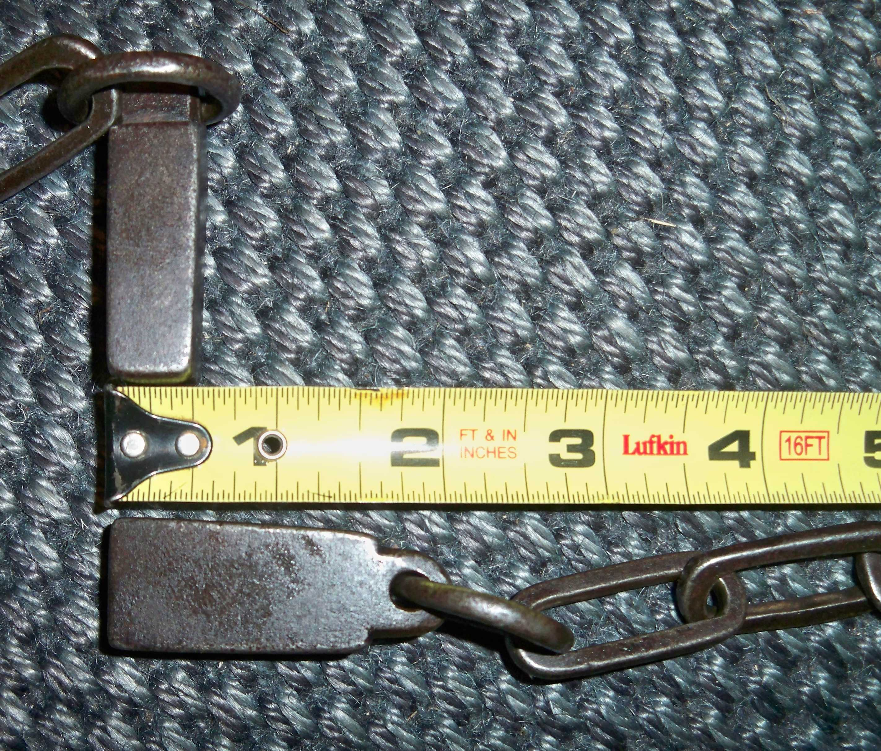 Fundo, the weights attached the the chain (kusari) of a manriki. Close up picture showing the length and thickness.